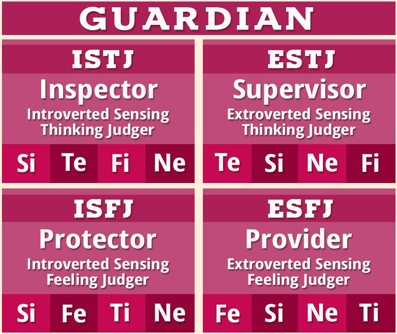 Guardian, ISTJ, ESTJ, ISFJ, ESFJ, Cognitive Functions and Keirsey Temperament